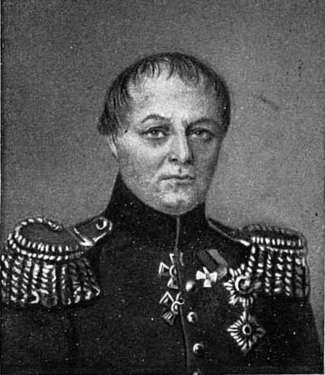 Gavrila Ignatjev (1768-1852), Russian army general